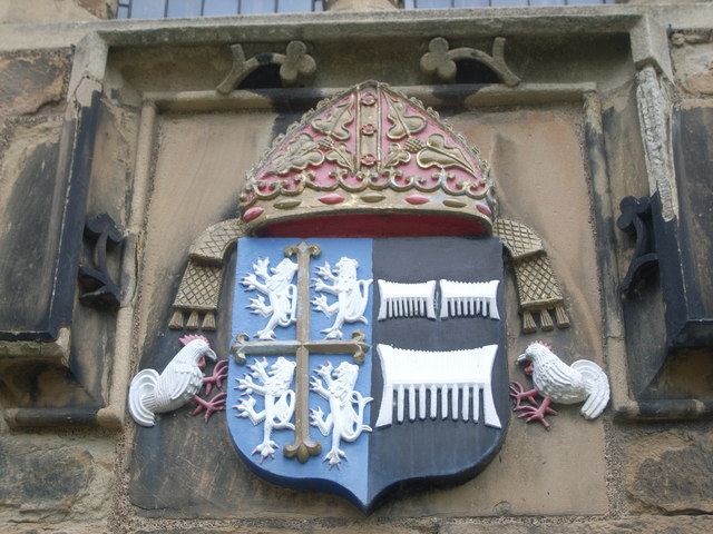 Durham Castle - external Coat of Arms. Arms of See of Durham impaling Tunstall (Sable, three combs argent) for Cuthbert Tunstall (1474-1559), Bishop of Durham 1530-1559. Text from Historical Anecdotes of Heraldry and Chivalry: Tending to Shew the Origin of, By Mrs. Dobson (Susannah)[1] "The family of Sir Brian Tunstal, who was slain at the battle of Flodden Field in 1513, bore arms before the Crusades. Their arms are sable, three combs argent, which arose from the first of the name and family in England, being barber to William the Conqueror. The son of Sir Brian was Cuthbert, who was twenty-eight years Bishop of Durham, and who was amongst the wisest, best, and most learned men of the age. All the descendants of Sir Brian are Roman Catholics of great property, seated at Wycliff, near the Tees."